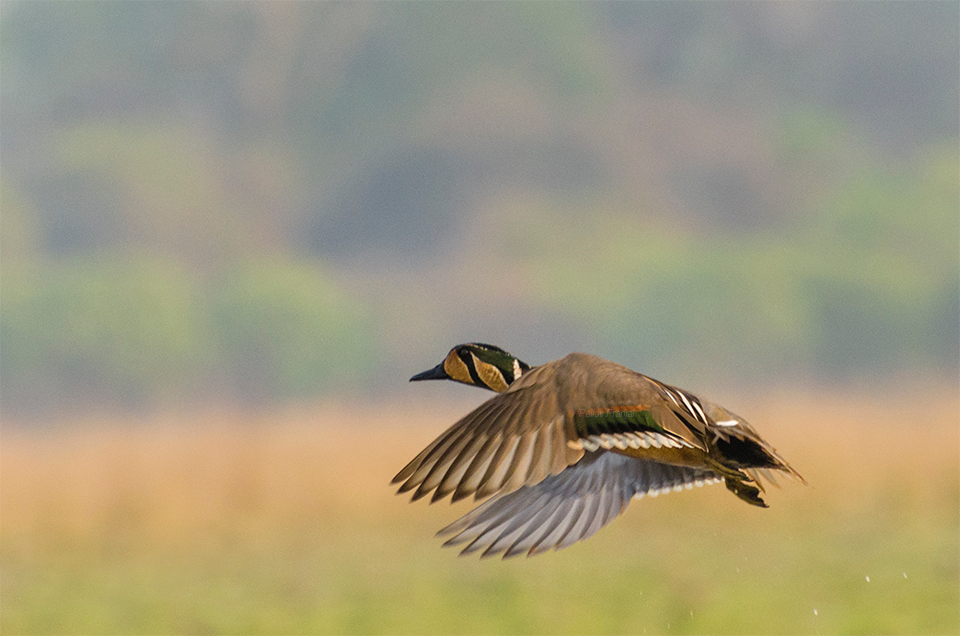 Pobitora Wildlife Sanctuary, Assam, India